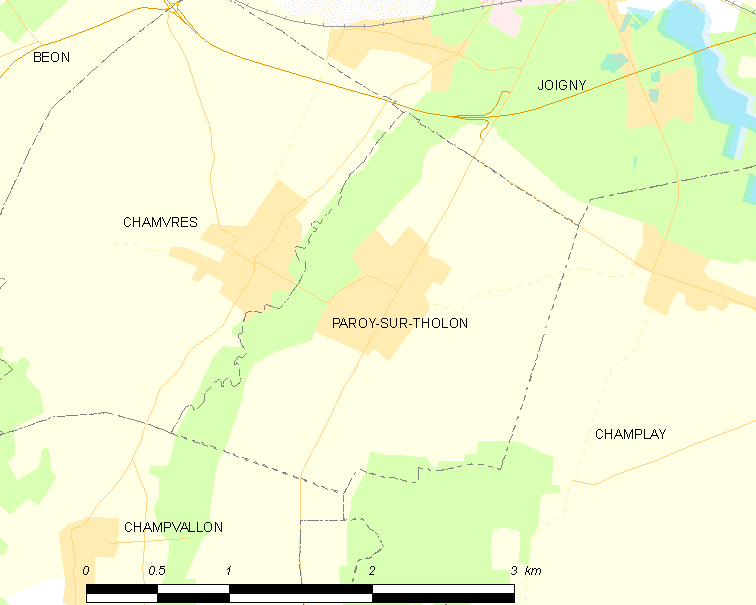 Map of French municipality Paroy-sur-Tholon